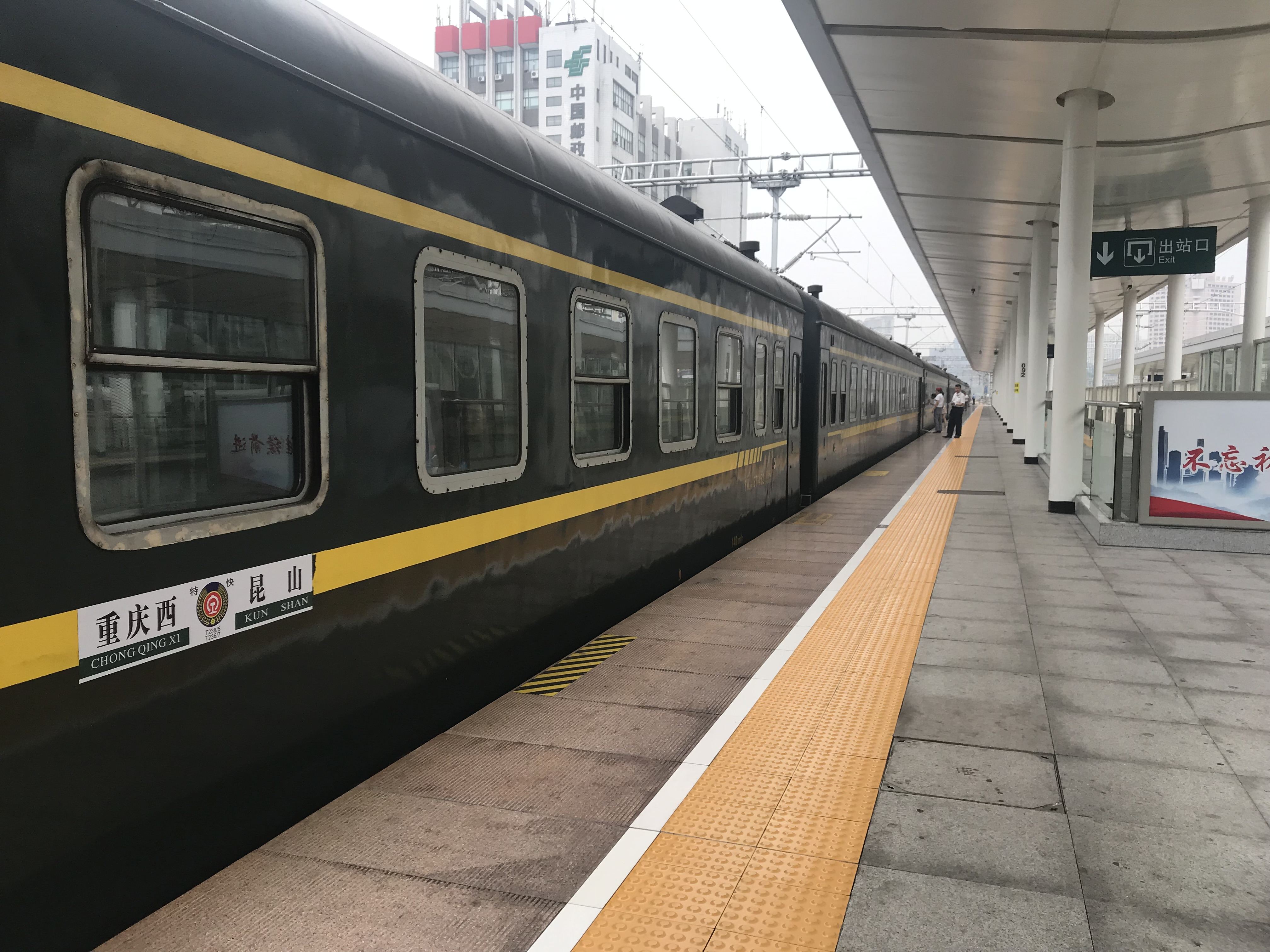 201907 Coaches of T236 at Changzhou Station